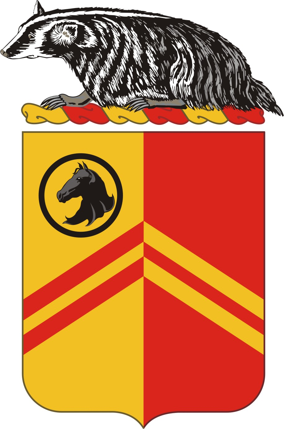 1226th Field artillery coat of arms